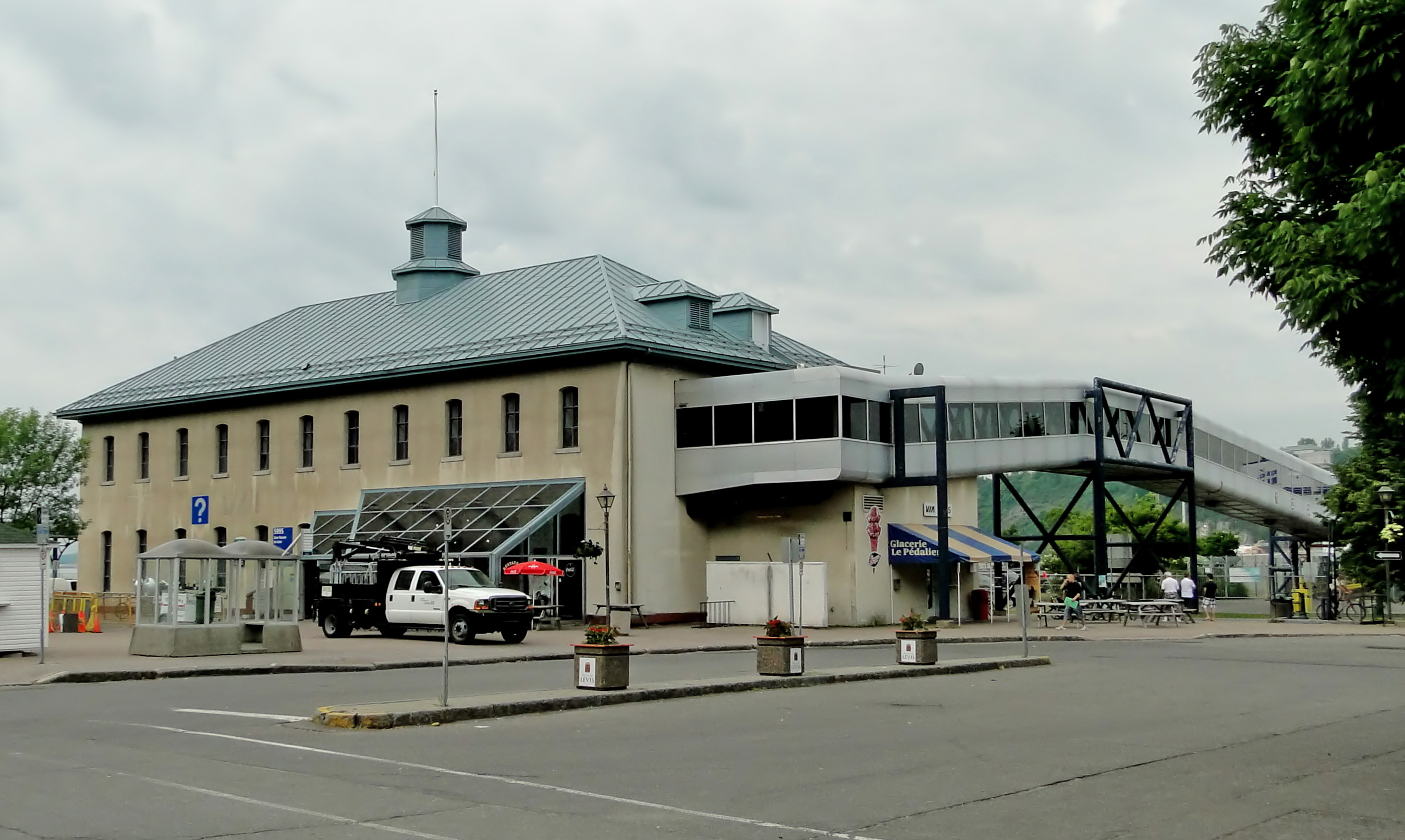 Lévis Railway Station (Intercolonial), Lévis, province of Quebec, Canada